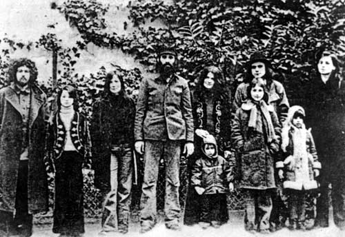 Squat Company in Paris after they left Budapest